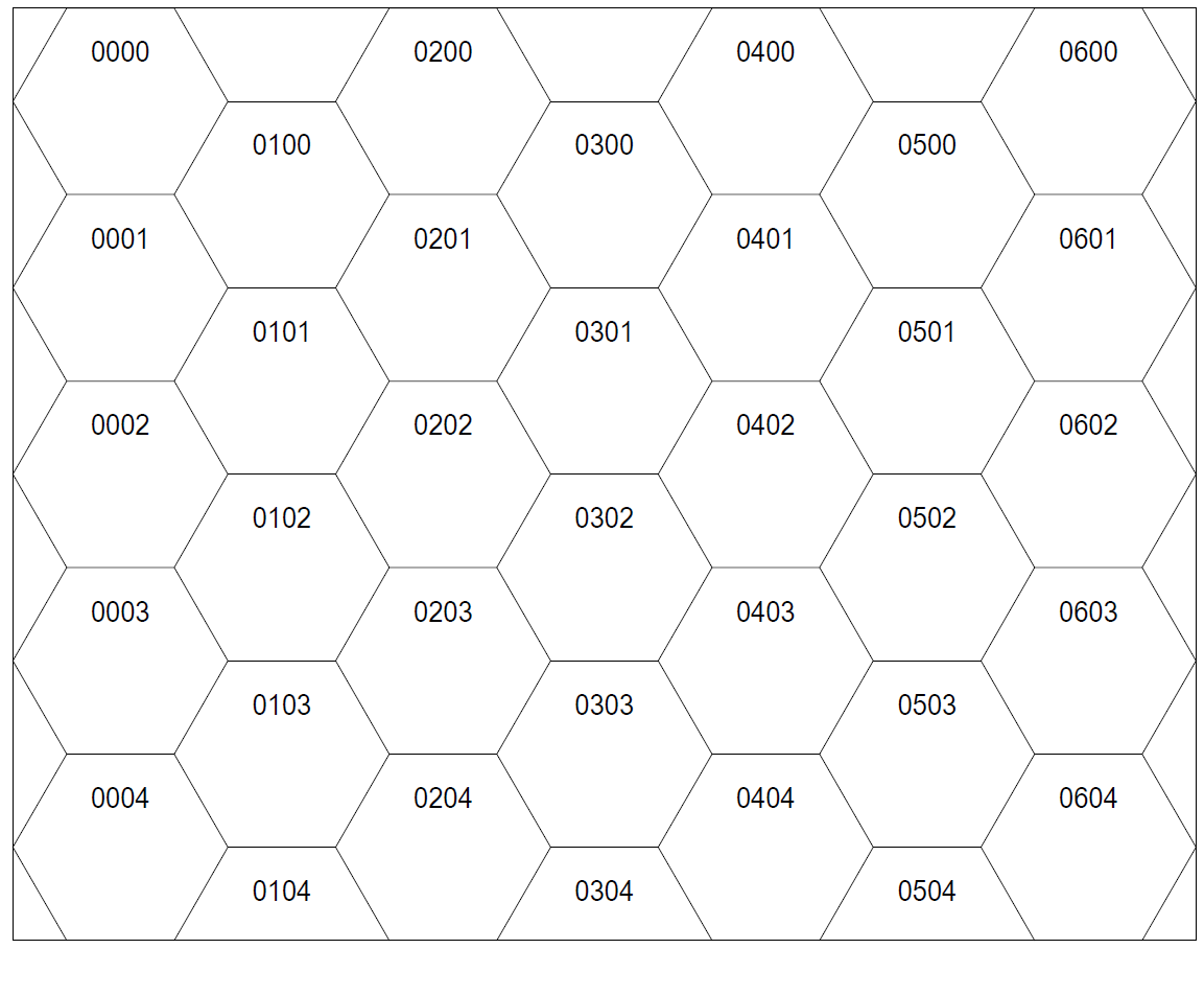 A hex grid as used in many games